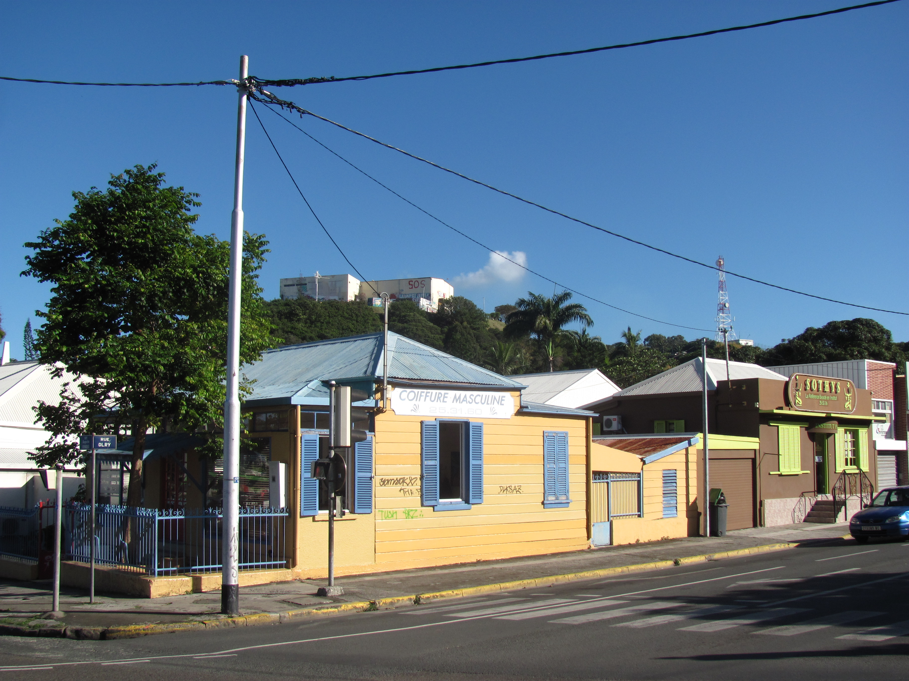 Rue Olry, Vallée du Génie, Nouméa, New Caledonia